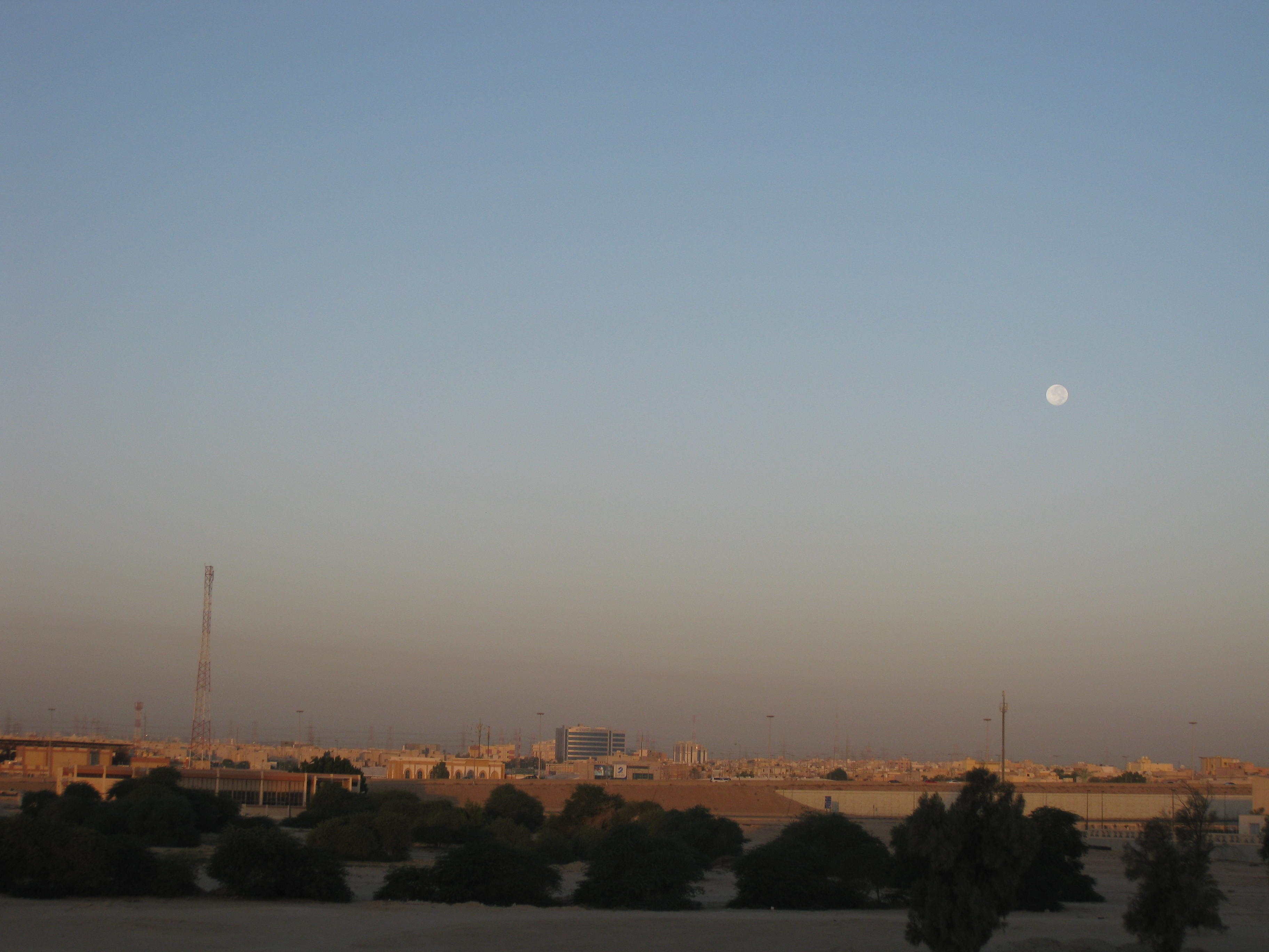 Clicks By irvin calicut .